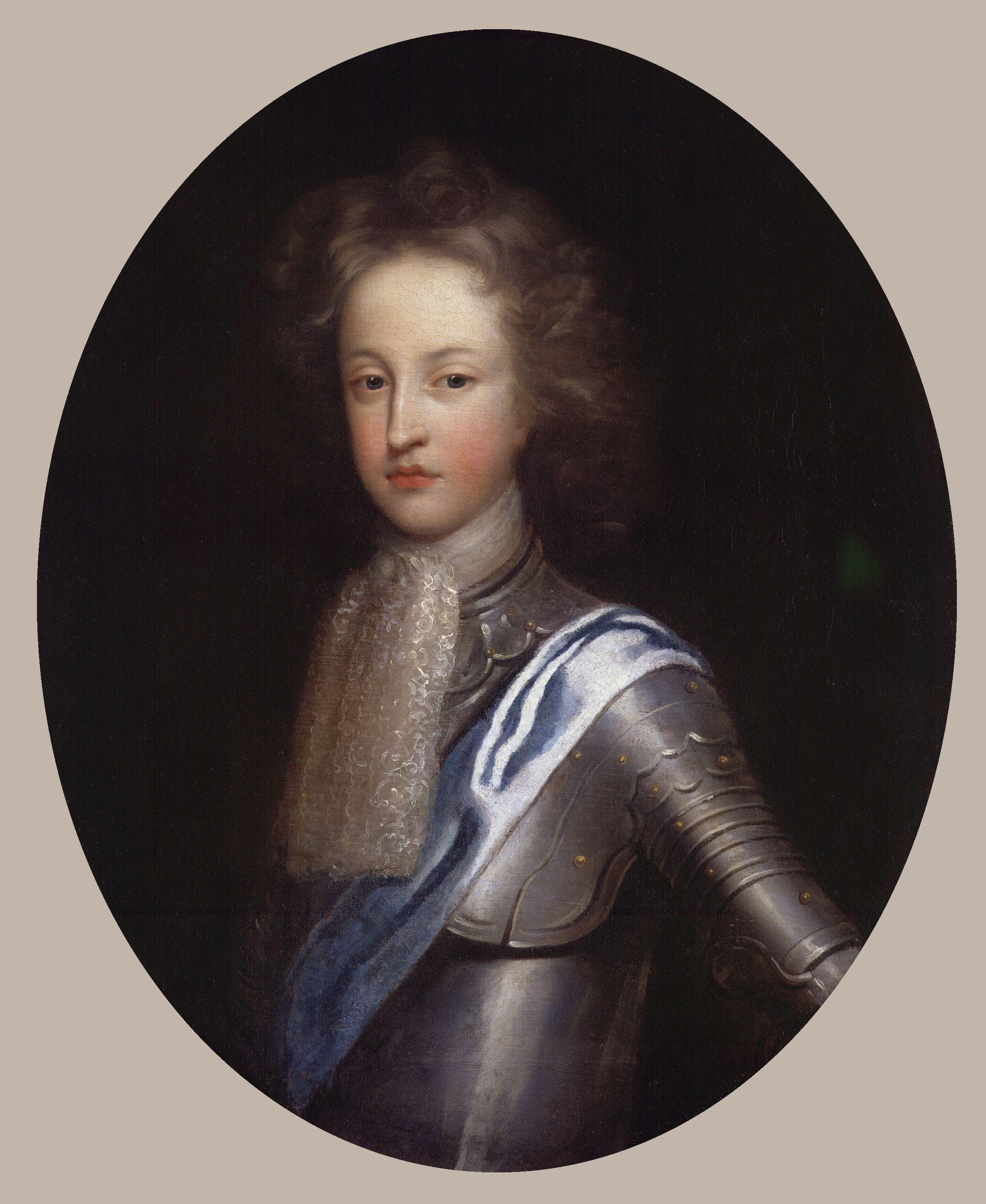 William, Duke of Gloucester, by Sir Godfrey Kneller, Bt (died 1723). All images in this batch have been confirmed as author died before 1939 according to the official death date listed by the NPG.